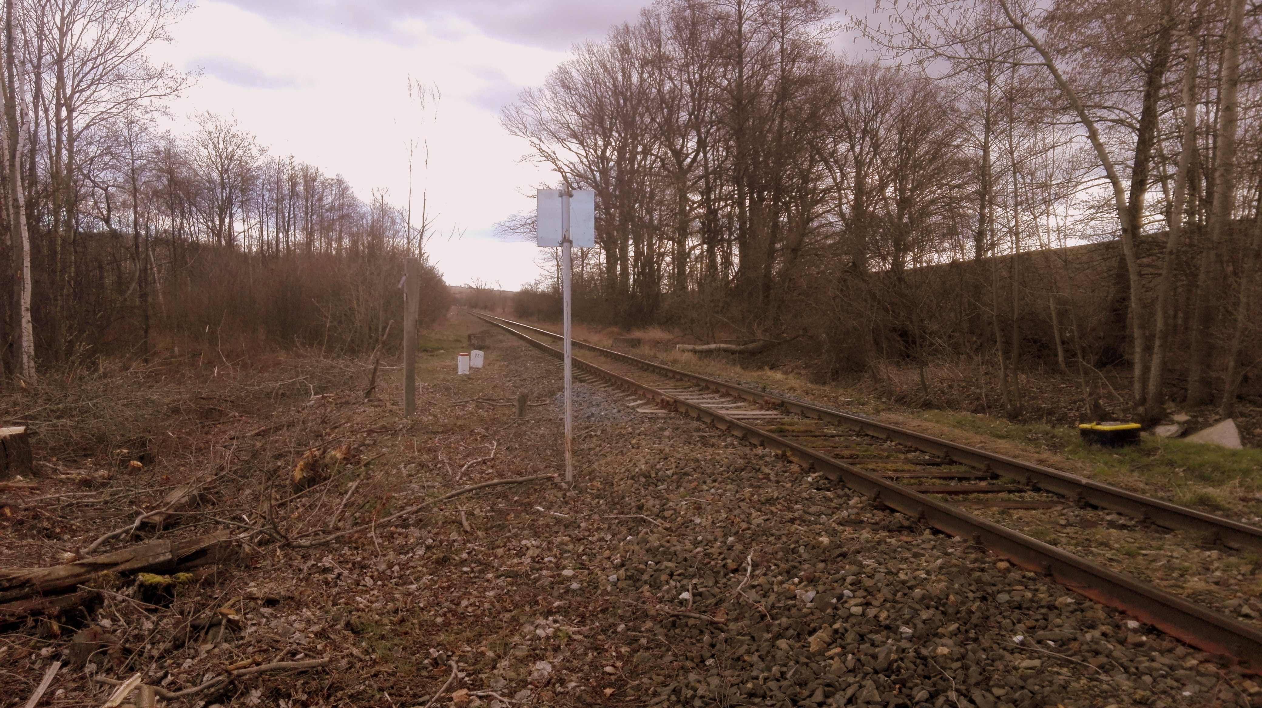 Głuchołazy-Jindřichov ve Slezsku border crossing